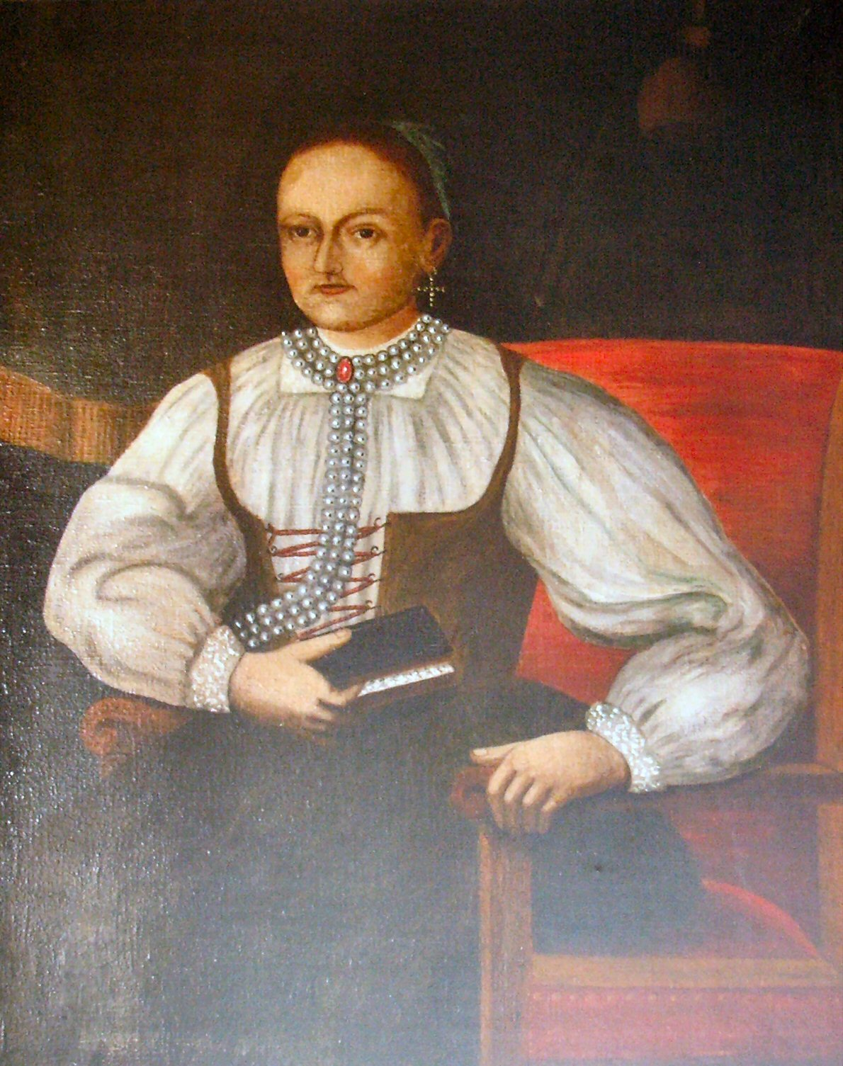 Portrait of Zsófia Bosnyák from catholic church Teplička nad Váhom, Slovakia.